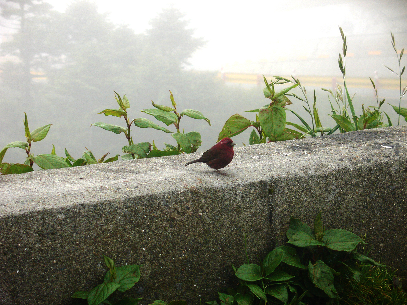 Carpodacus formosanus